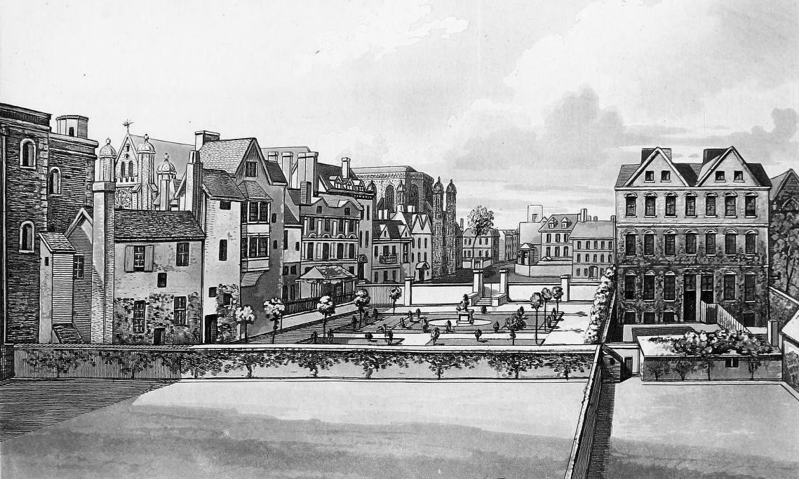 Old Palace Yard, Westminster, 1720. I suspect it is in turn based on a drawing by Leonard Knyff (1650-1722), now in the British Museum.